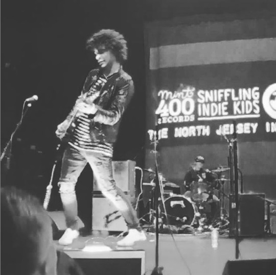 The Components performing at the 2018 North Jersey Indie Rock Fest.